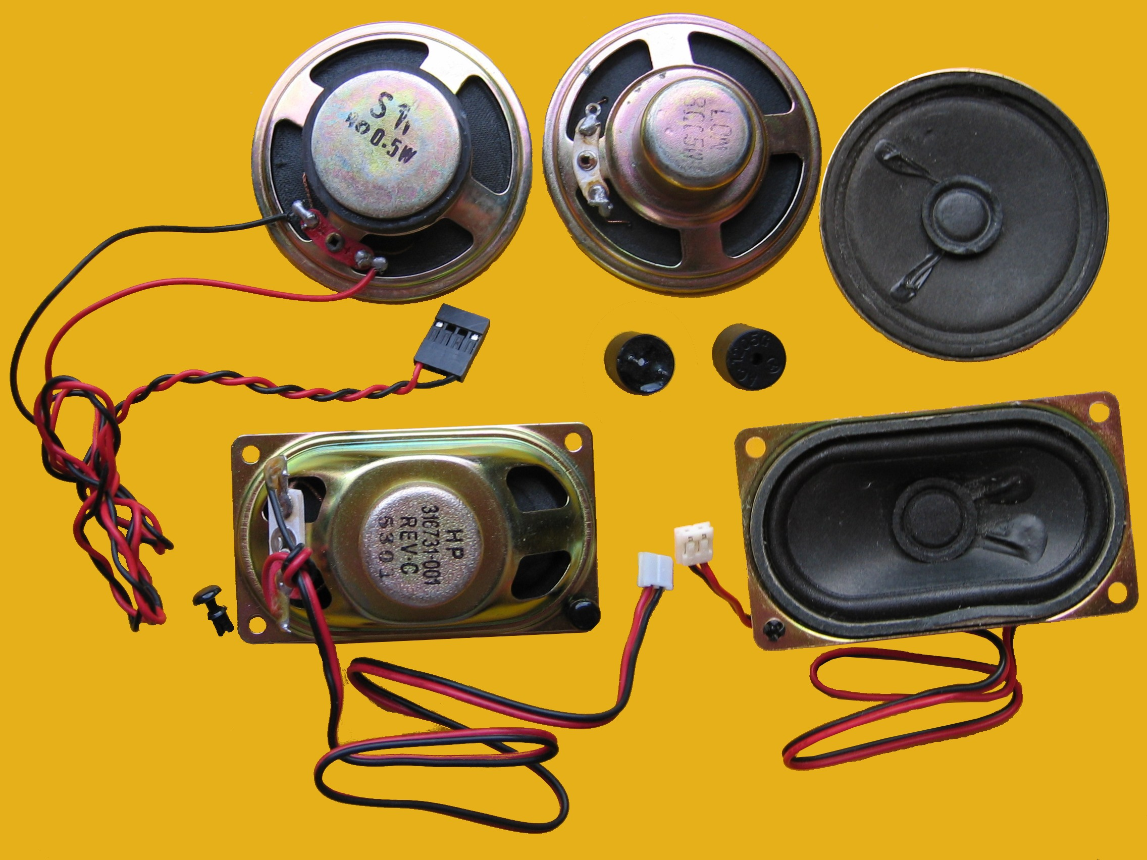 PC Speakers and Buzzers